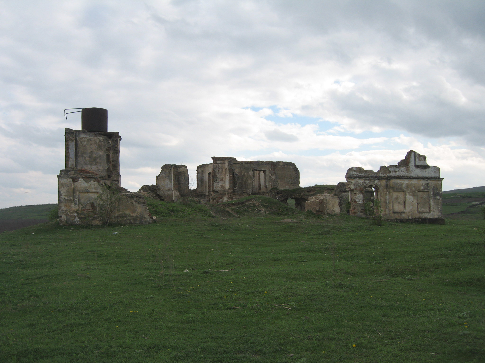 Conacul din Cepleniţa